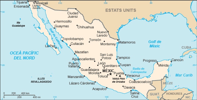 Map of Mexico with names in Catalan